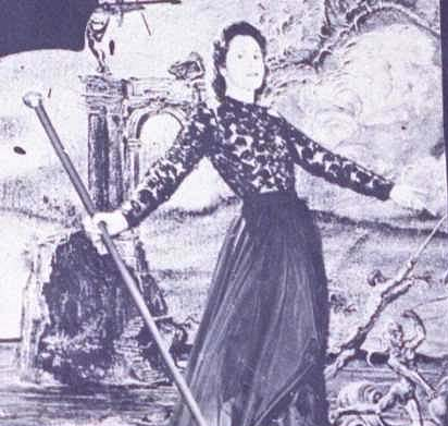 Gala Dalí, cropped from "Salvador Dalí in 1972 at Meurice Hotel, rue de Rivoli, 1st arrondissement, Paris, France"